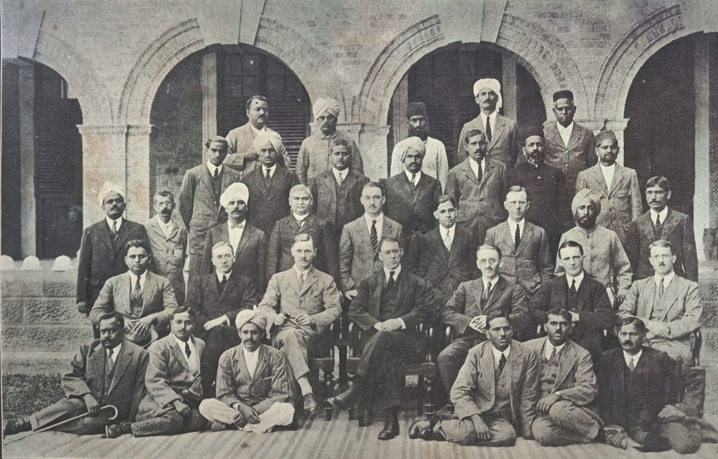 Entomologists at the fifth meeting in Pusa 1923 Fifth row (standing) Mukerjee, G.D.Ojha, Bashir, Torabaz Khan, D.P. Singh Fourth row (standing) M.O.T. Iyengar, R.N. Singh, S. Sultan Ahmad, G.D. Misra, Sharma, Ahmad Mujtaba, Mohammad Shaffi Third row (standing) Rao Sahib Rama Chandra Rao, D Naoroji, G.R.Dutt, Rai Bahadur C.S. Misra, SCJ Bennett (bacteriologist, Muktesar), P.V. Isaac, T.M. Timoney, Harchand Singh, S.K.Sen Second row (seated) Mr M. Afzal Husain, Major RWG Hingston, Dr C F C Beeson, T. Bainbrigge Fletcher, P.B. Richards, J.T. Edwards, Major J.A. Sinton First row (seated) Rai Sahib PN Das, B B Bose, Ram Saran, R.V. Pillai, M.B. Menon, V.R. Phadke (veterinary college, Bombay)